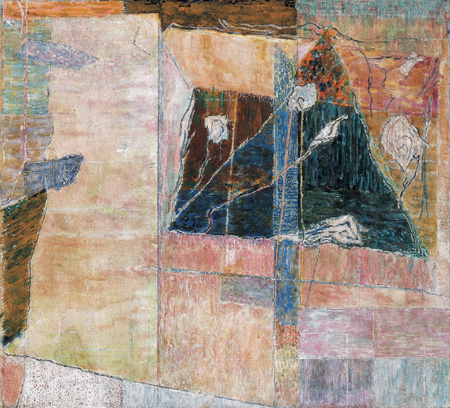 Painting by Ilka Gedő at the Hungarian National Gallery ROSE GARDEN WITH A TRIANGULAR WINDOW Oil on canvas, 50 x 55 cm